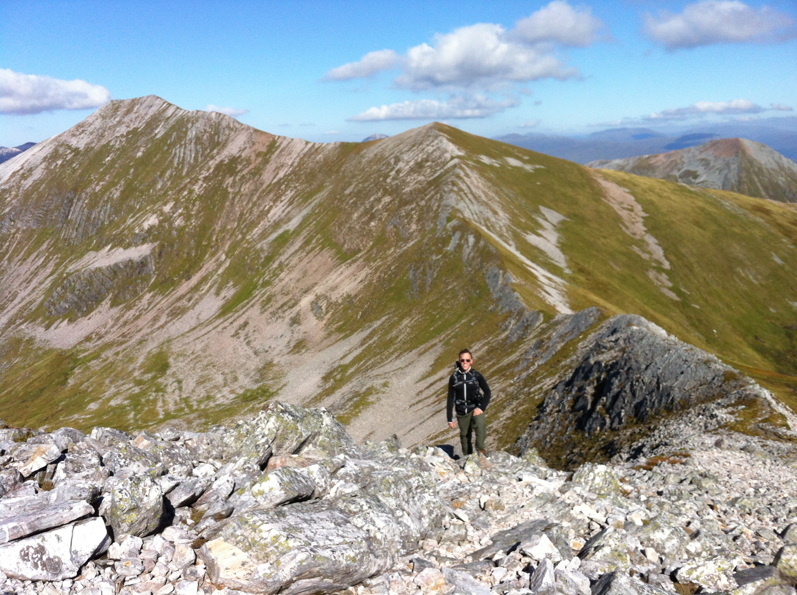 Binnein Mor and Na Gruagaichean area in Scotland.